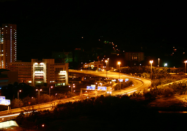 Wong Chu Road and Lung Mun Road at the crossroads